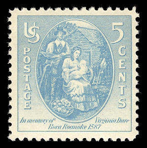 US stamp of 1937 honoring Virginia Dare, 1st English child born in American colony